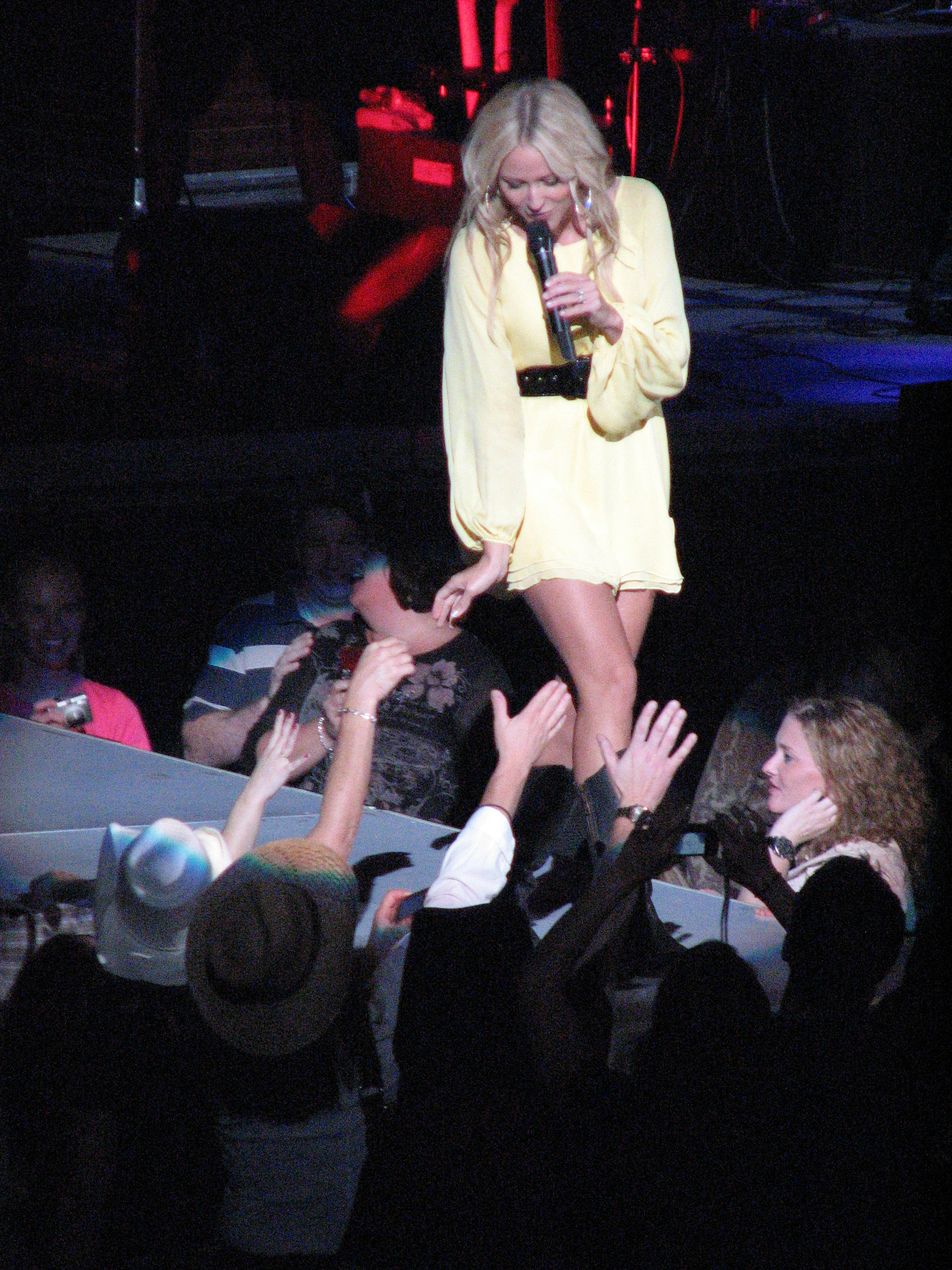 Jewel performing live at the Duncan Donuts Center in Providence, Rhode Island, September 27, 2008